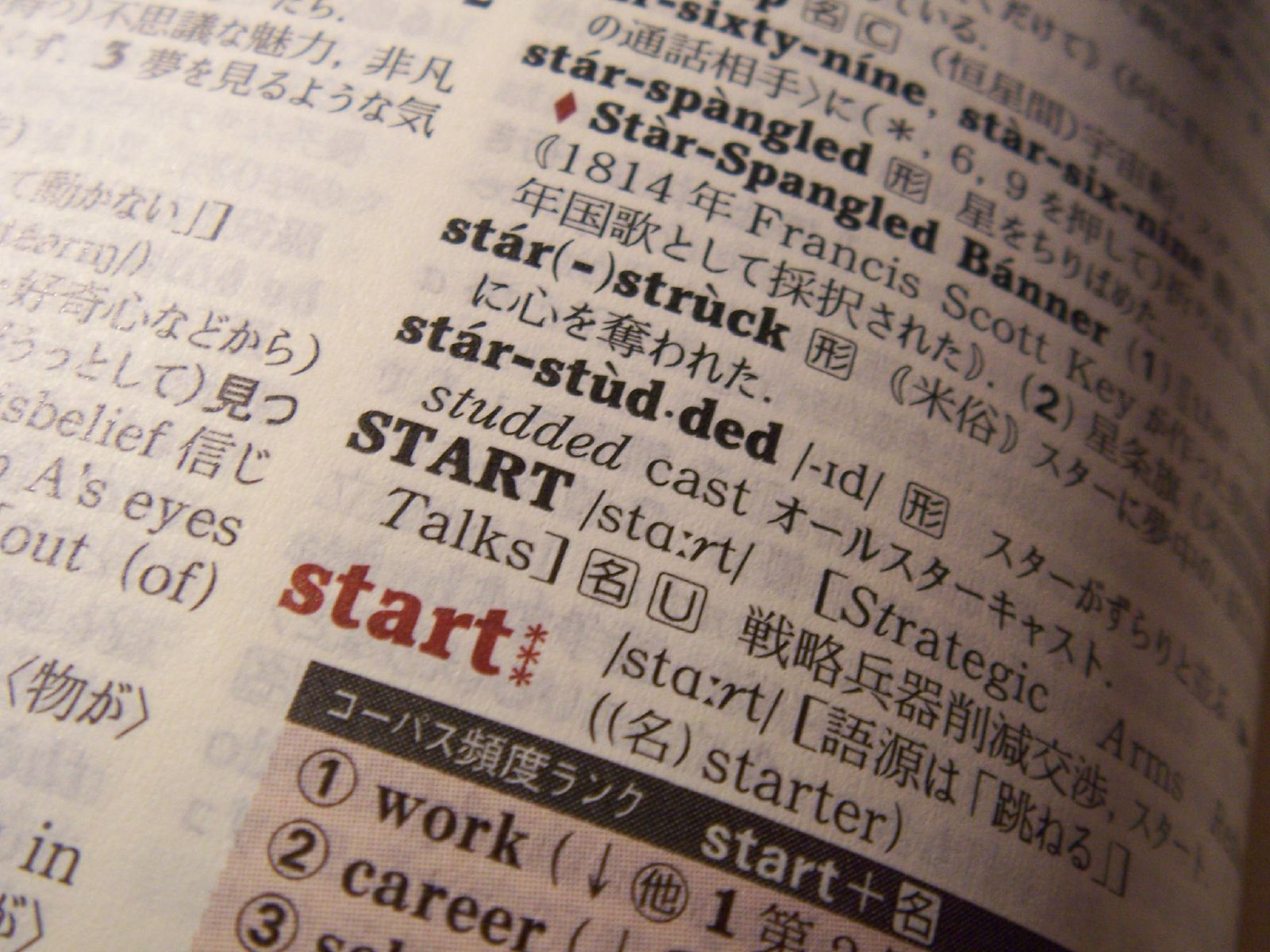 Japanese-English dictionary